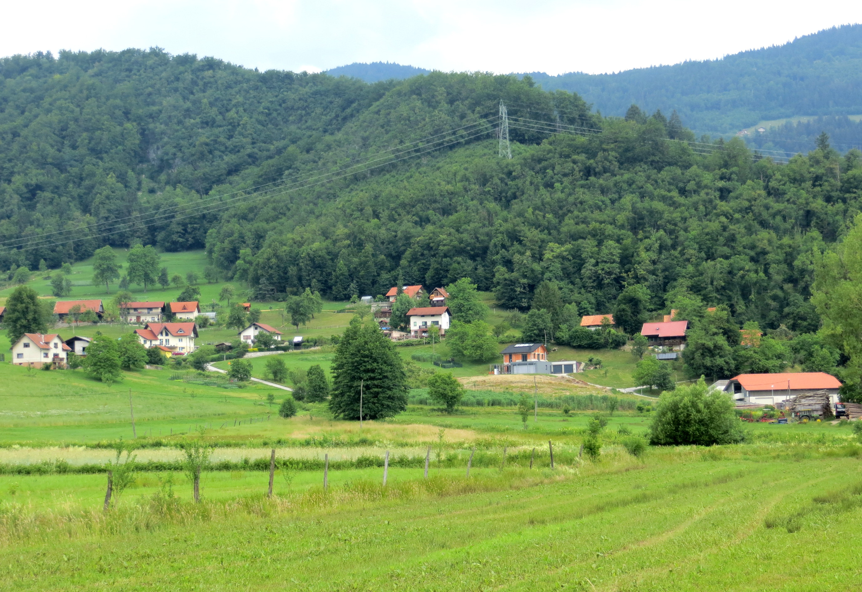 The hamlet of Jak in Prapreče, Municipality of Vransko, Slovenia